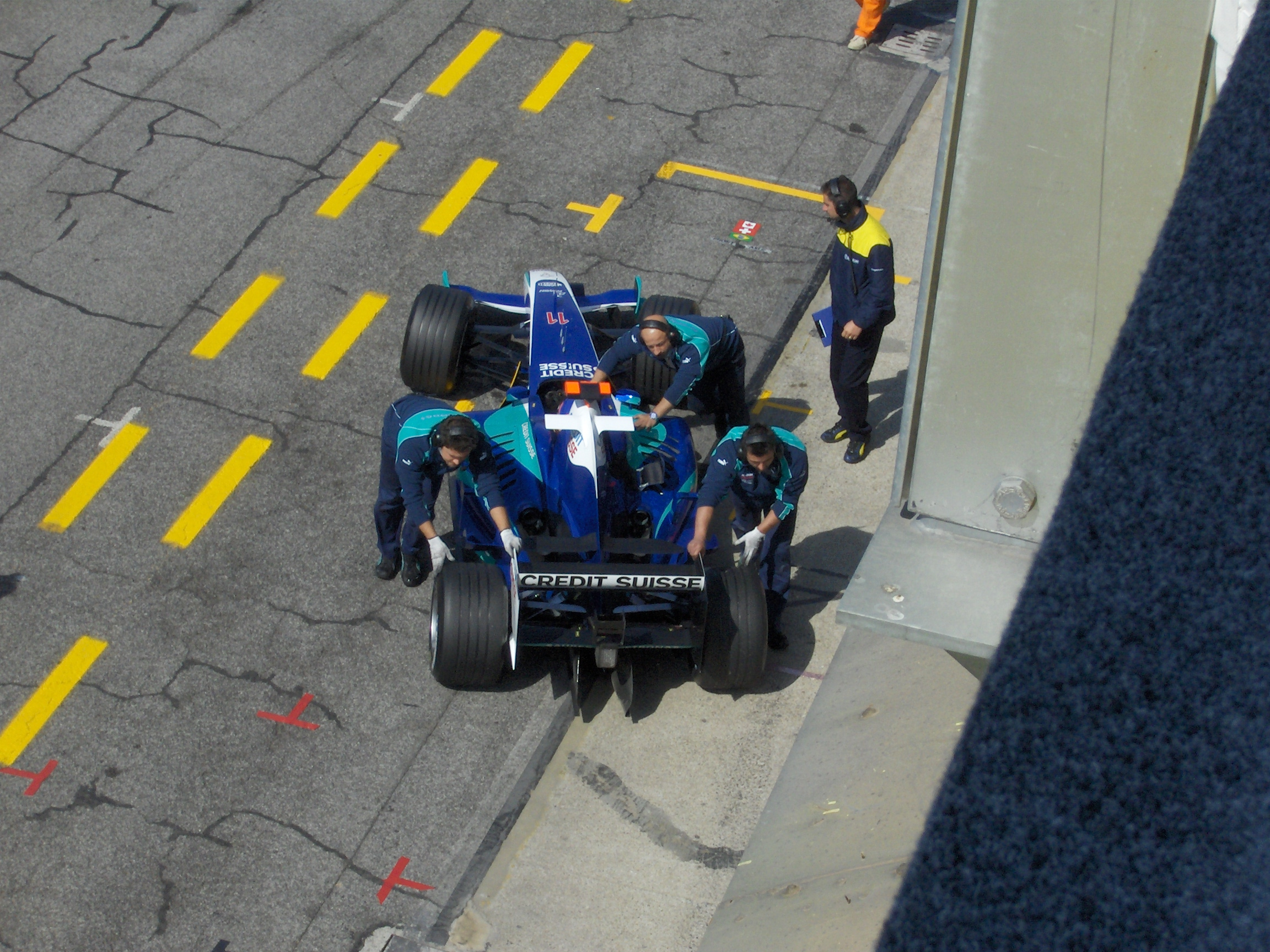 Jacques Villeneuve's Sauber Formula One car being pushed by mechanics at the 2005 San Marino Grand Prix